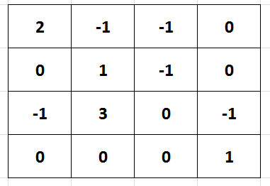 Ma tran da bien doi 1